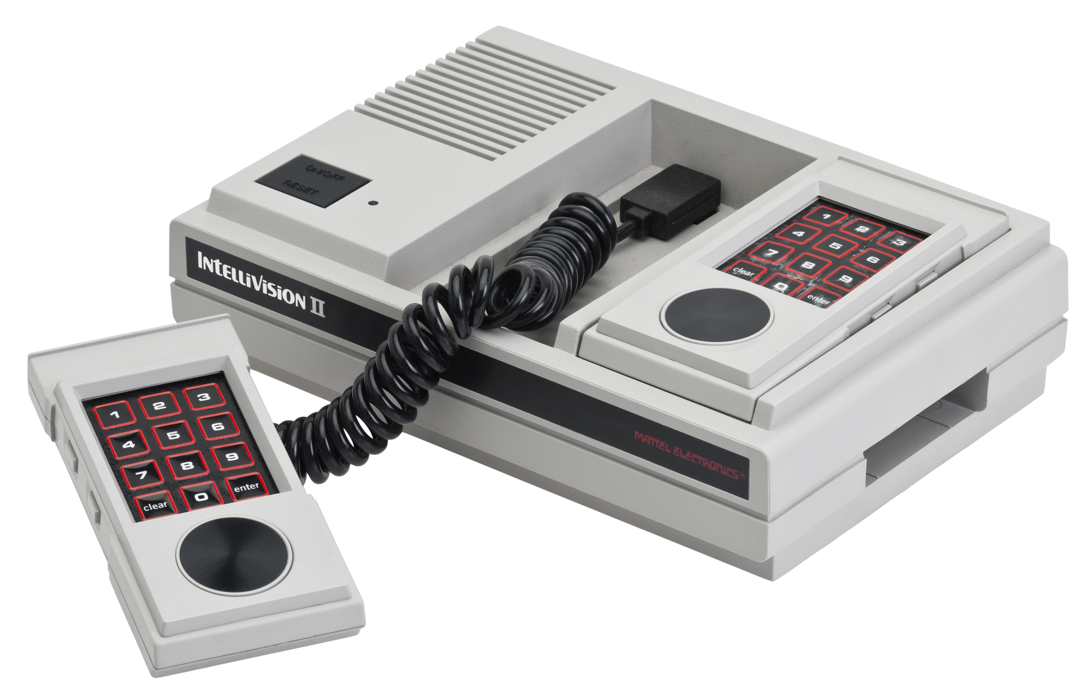 The Intellivision II video game console. This scaled-down redesign of the Intellivision was released in 1983.